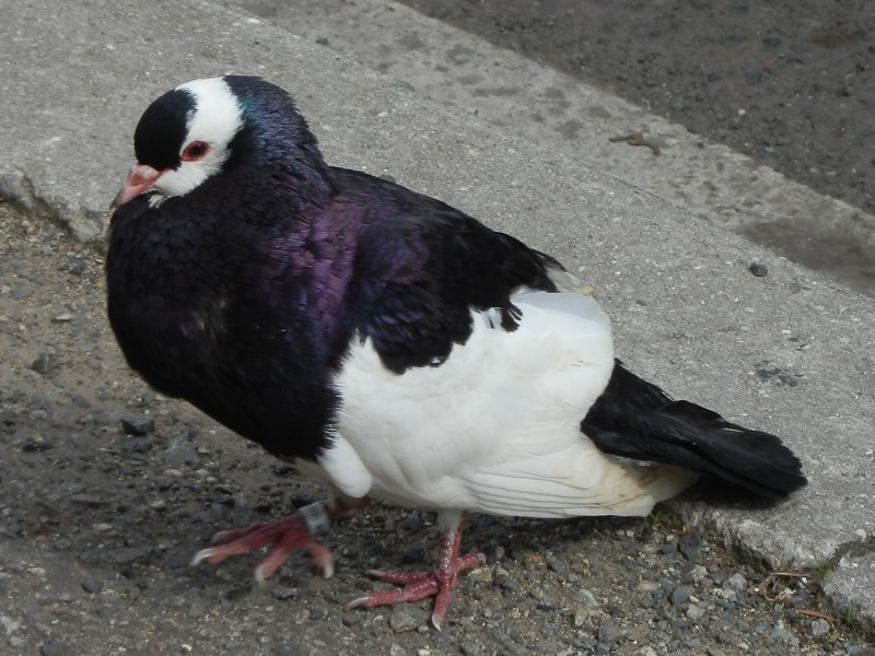 Czech Steller Cropper / Bohemian Steller Cropper